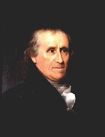 Portrait of Benjamin Waterhouse at the age of 79